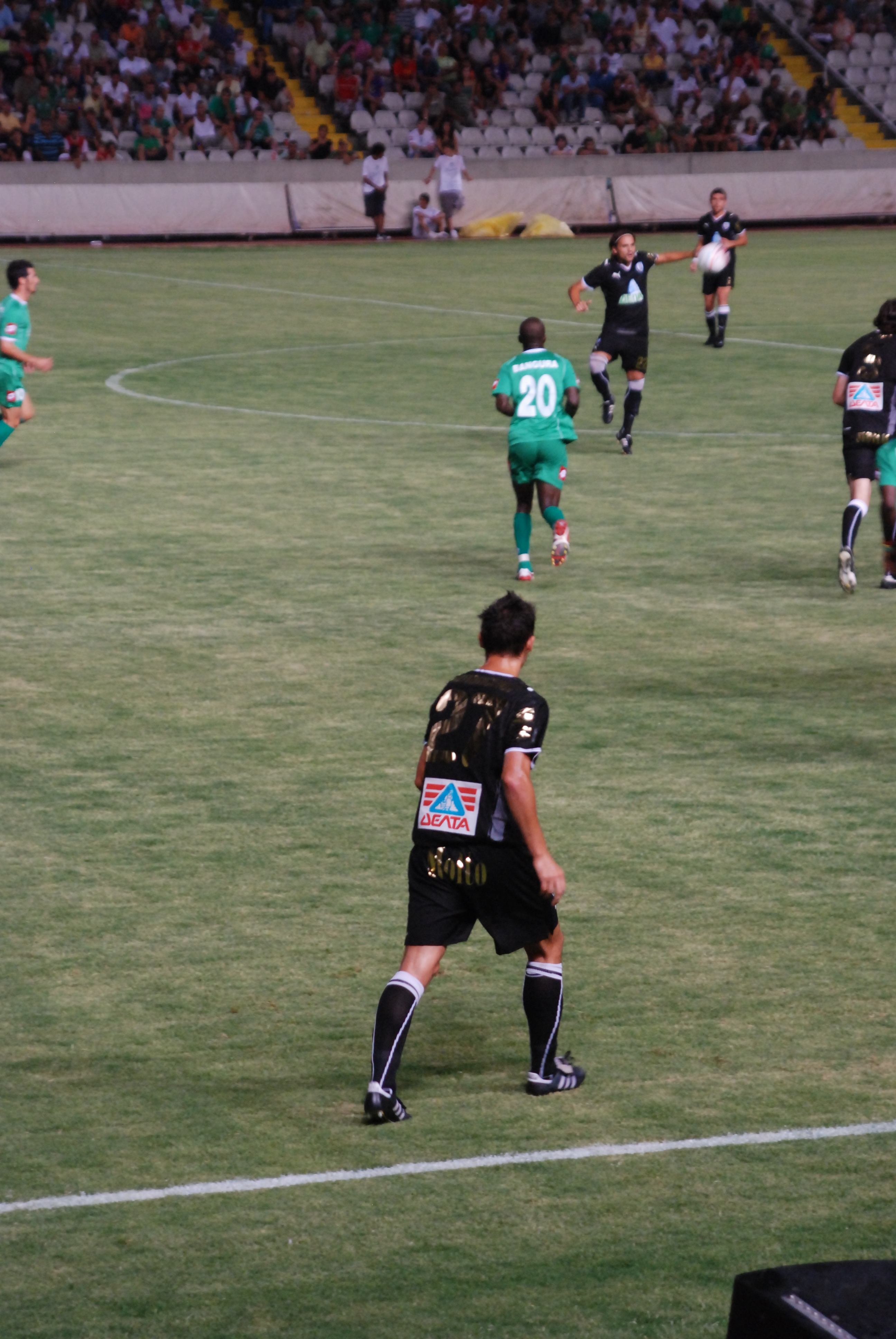 Mirosław Sznaucner with PAOK against Omonia Nicosia.